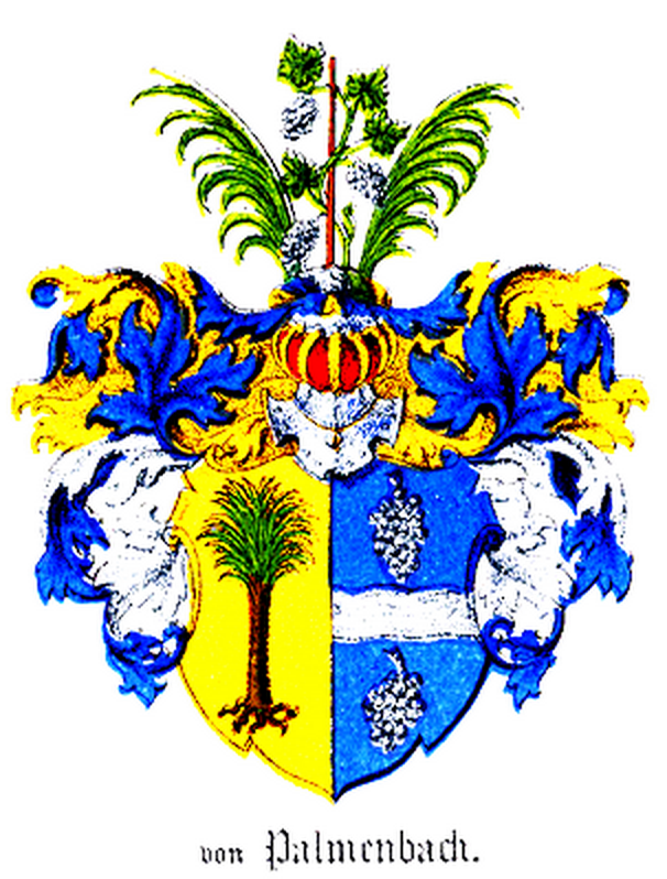 Coat of Arms of Palmenbach family